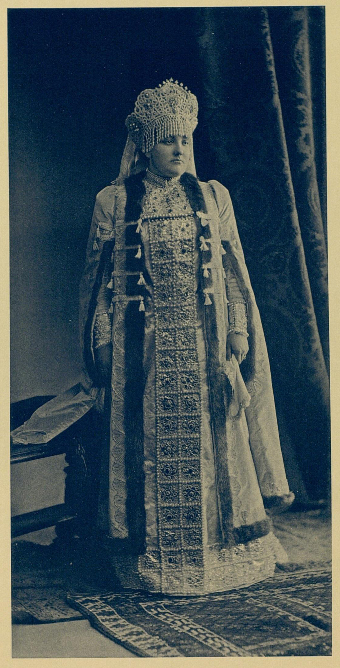 Vera Nikolaevna Volkova, née Skalon